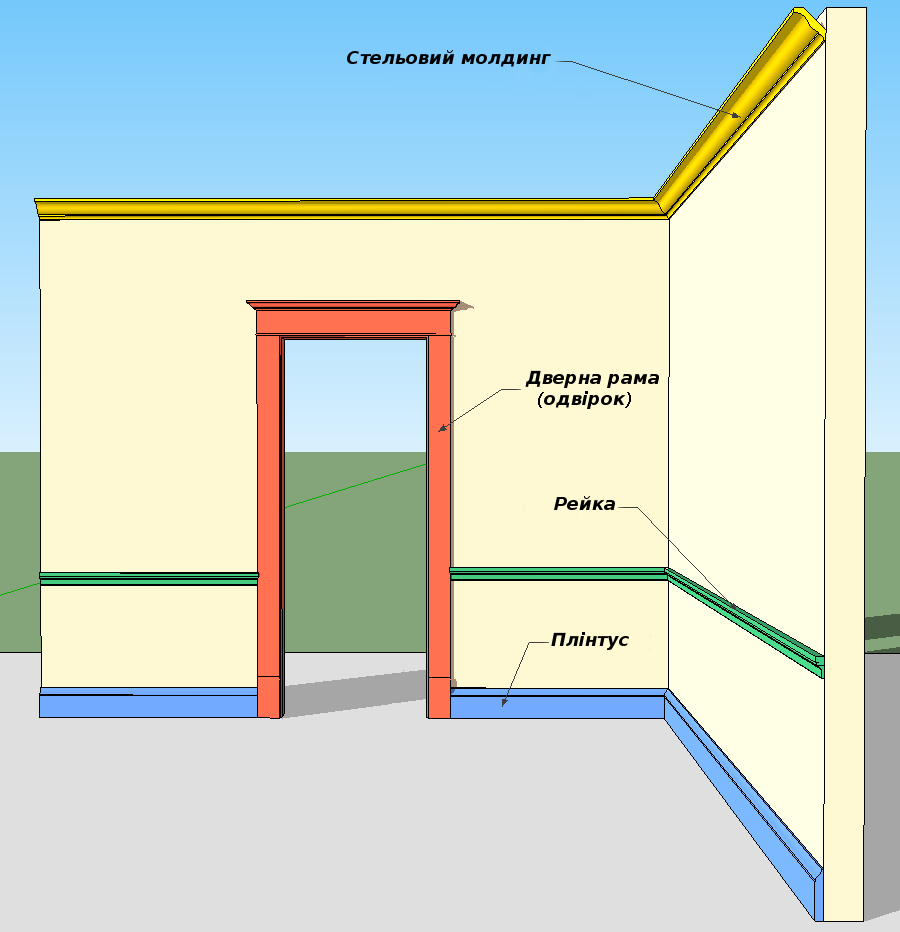 A diagram of basic interior architectural moldings (in Ukrainian).